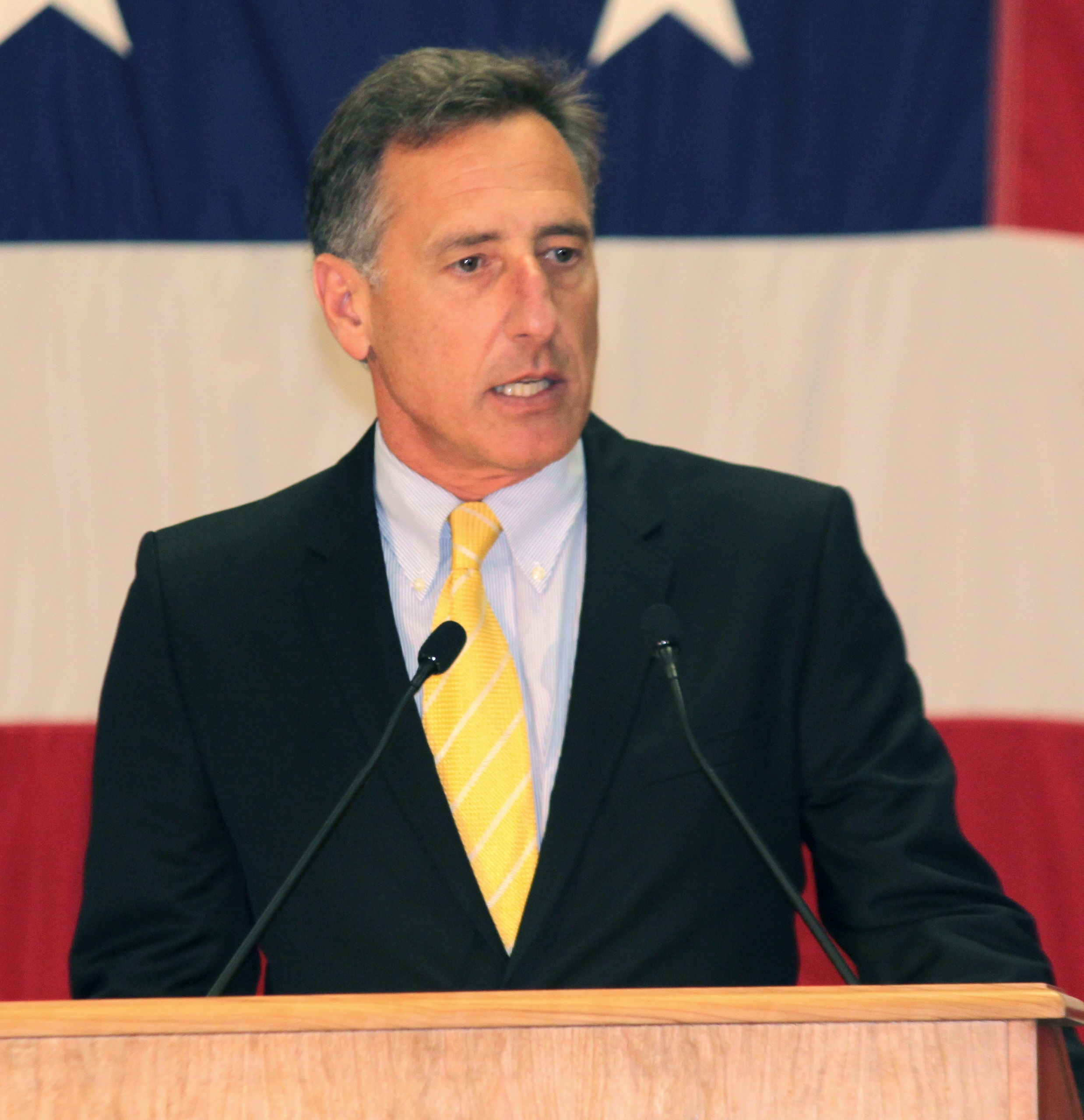 Governor of Vermont Peter Shumlin